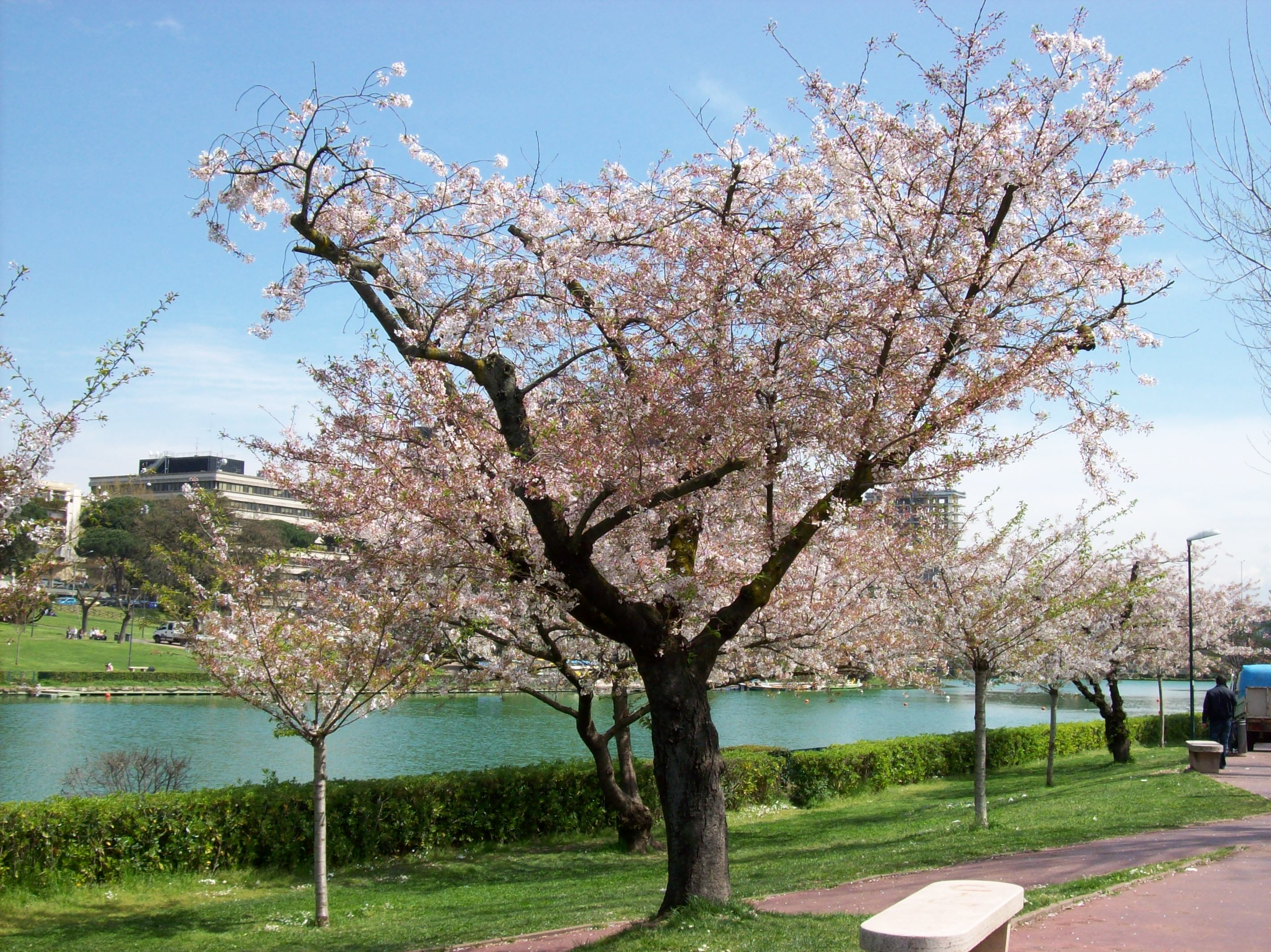 A flowering sakura tree in the central park Lake at EUR, Rome. The sakura trees were donated in 1959 by the Prime Minister of Japan Mr. Nobusuke Kishi during his State visit in Italy